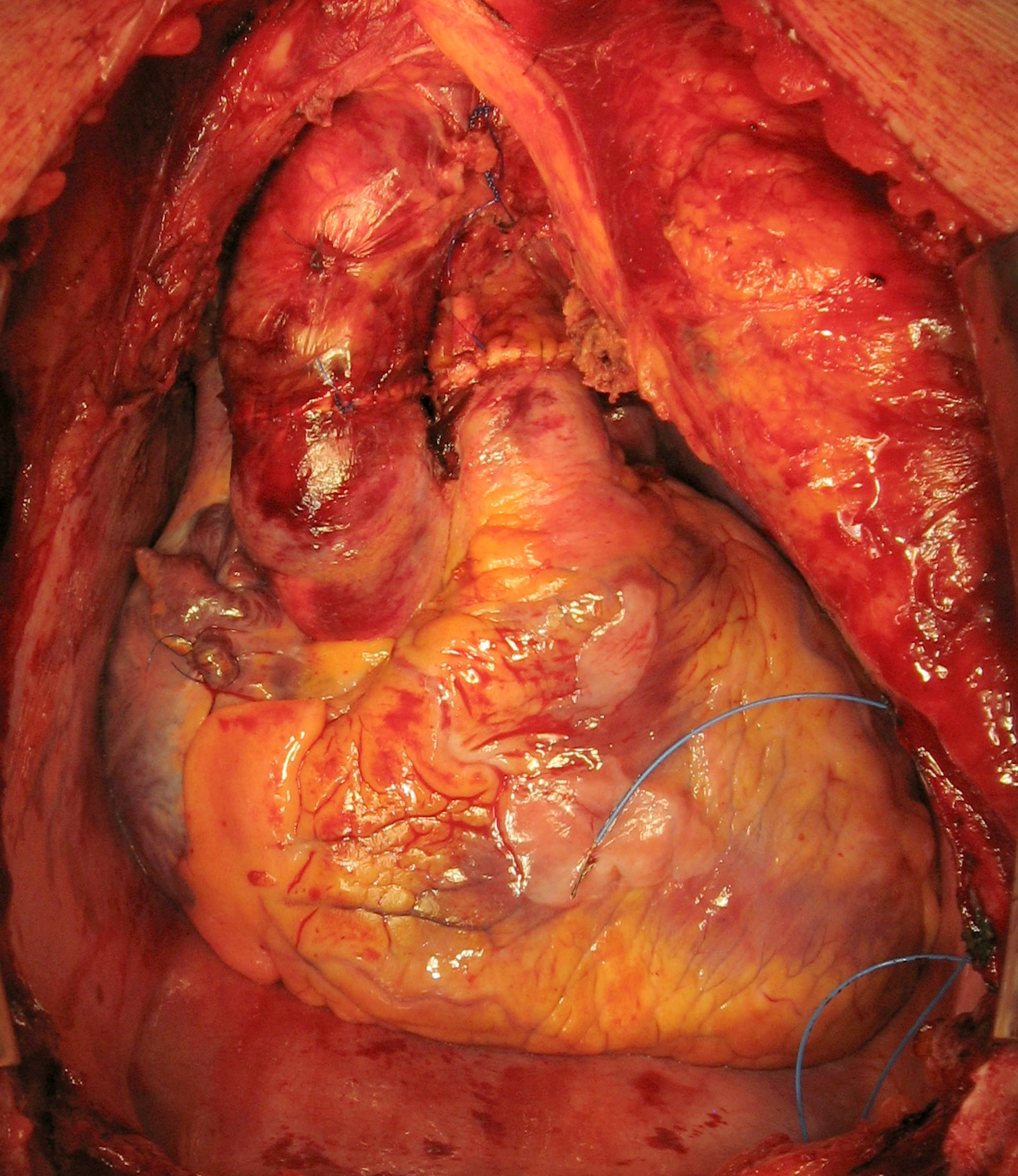 Transplanted heart in the thorax of recipient